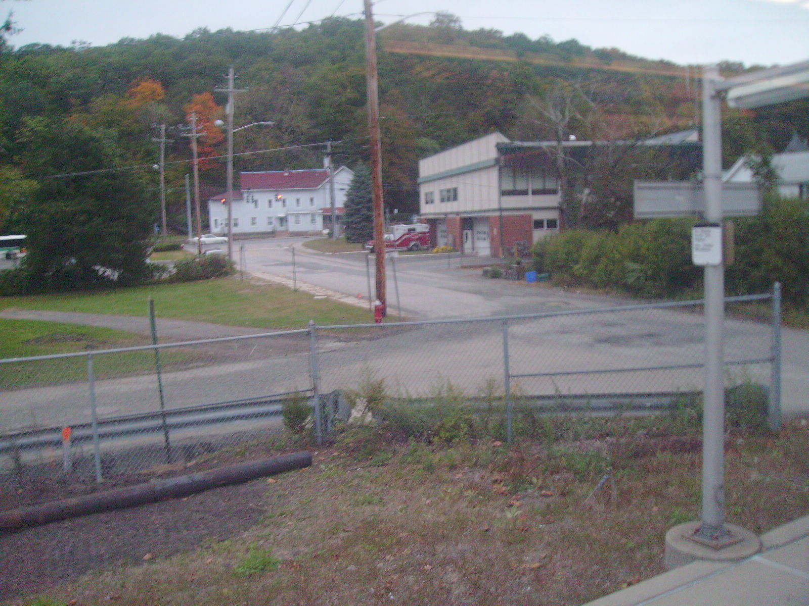 Sloatsburg, New York from the Metro-North station, which is visible in the foreground.